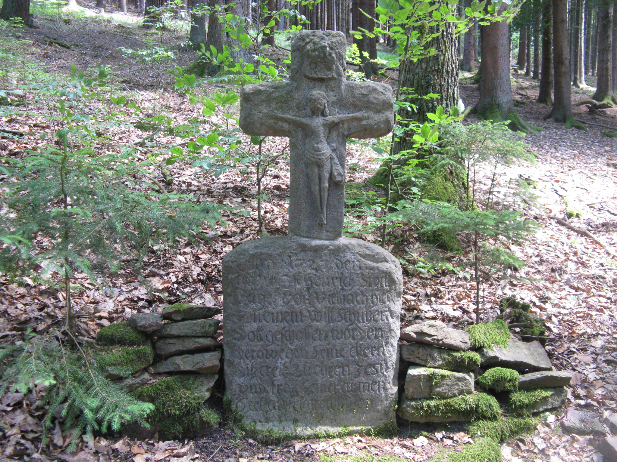 Jägerskreuz (Hunter's Cross) near Bad Orb